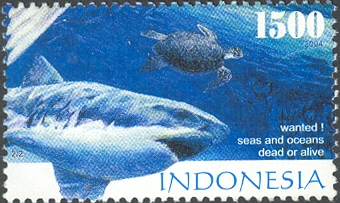 Stamps of Indonesia